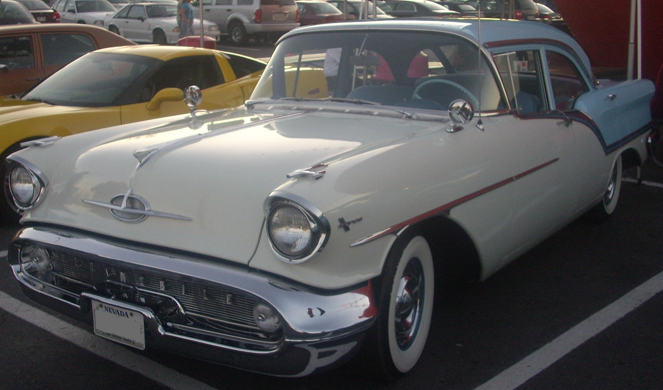 1957 Oldsmobile Super-88 photographed in Montreal, Quebec, Canada at Gibeau Orange Julep.